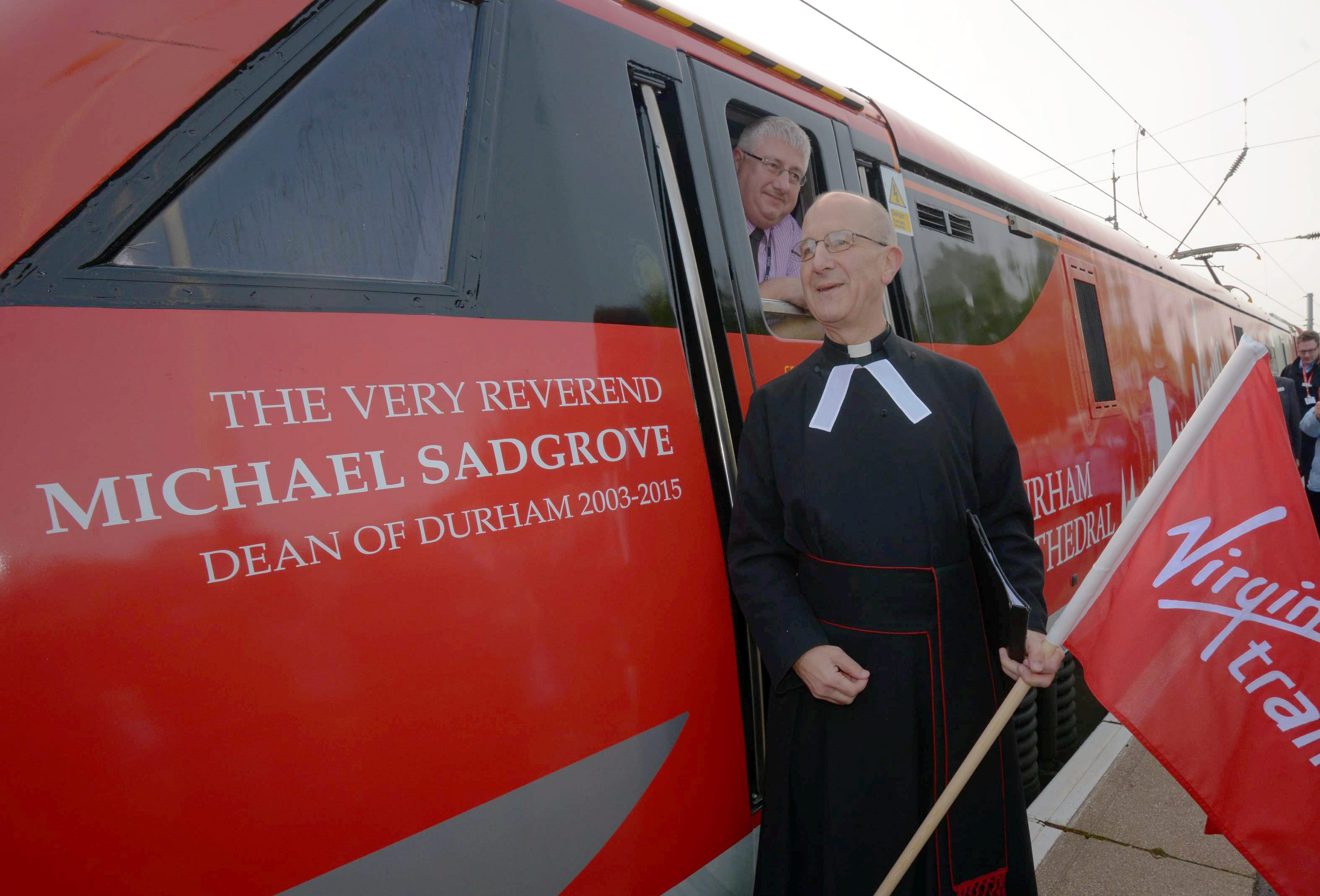 The Very Reverend Michael Sadgrove, Dean of Durham Cathedral, with Virgin Trains East Coast locomotive 91114 at Durham railway station. Original description: Dean of Durham Michael Sadgrove welcomes the 'Durham Cathedral' locomotive which features his name as part of the special design.